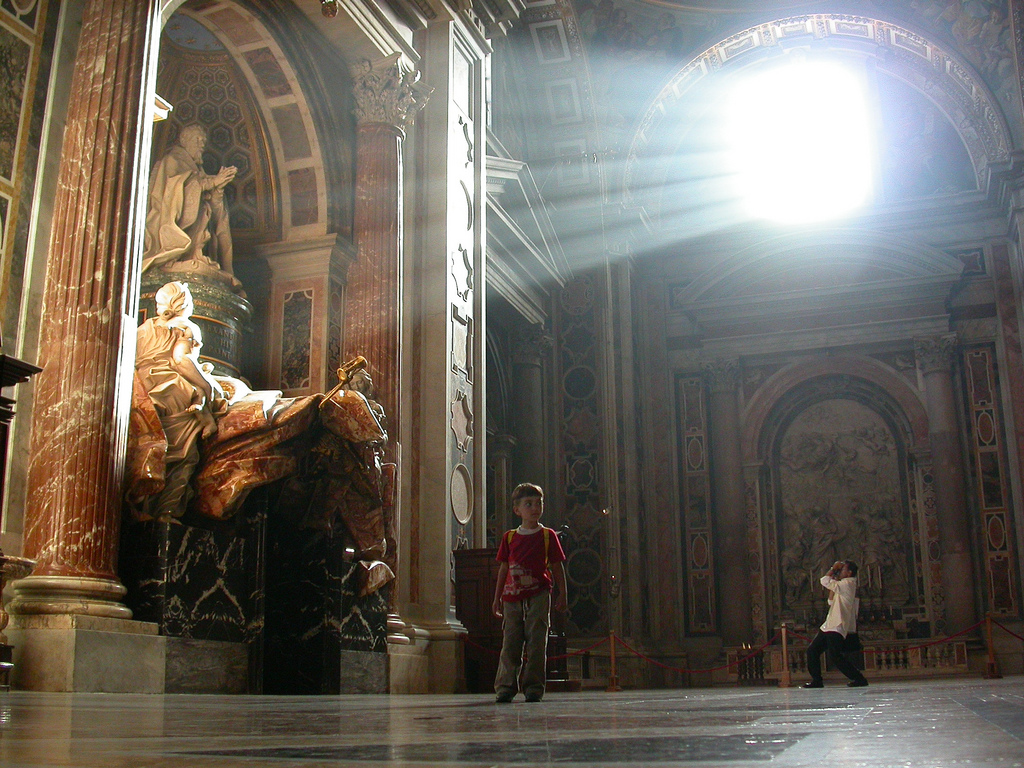 Side View of Tomb of Alexander VII, designed by Gianlorenzo Bernini, 1671-8, St Peter's, Vatican City